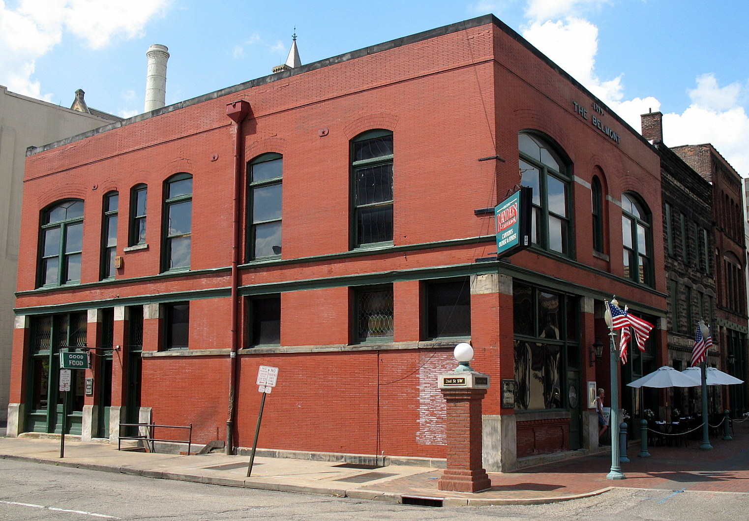 National Register of Historic Places listings in Stark County, Ohio Bender's Restaurant-Belmont Buffet, 137 Court Ave., SW, Canton, Ohio